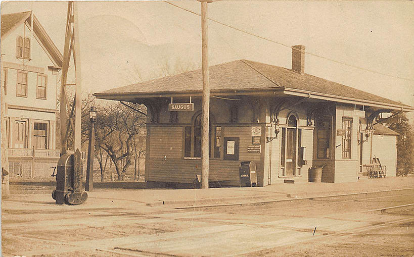 Early divided back postcard of Saugus station